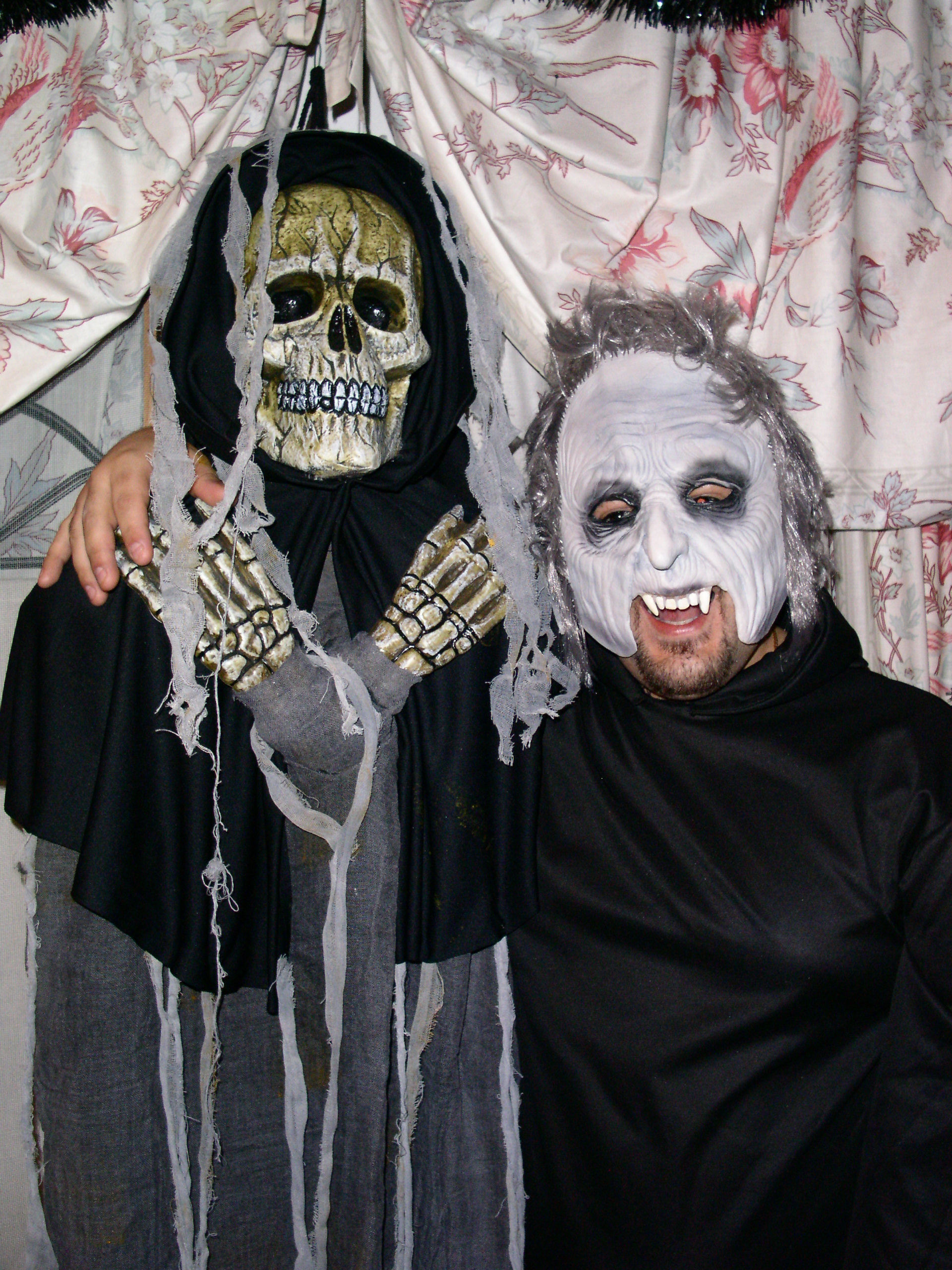 Halloween party